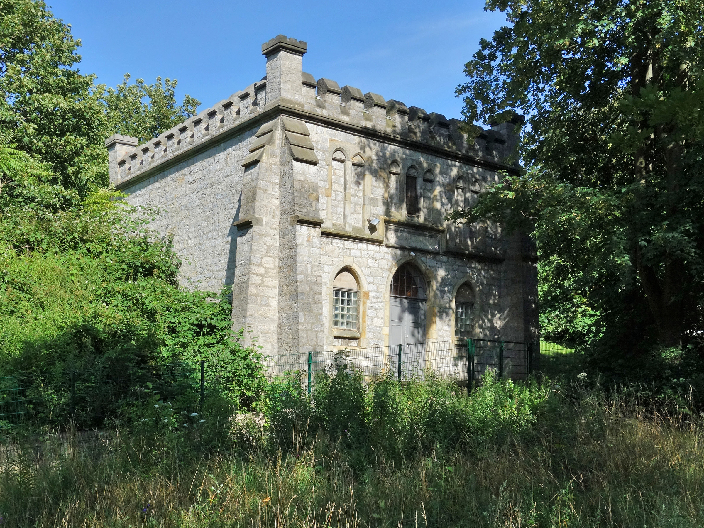 Service reservoir of the Ortsschlump water supply plant in the Mozartstrasse in Hildesheim, Germany. Build in 1894.